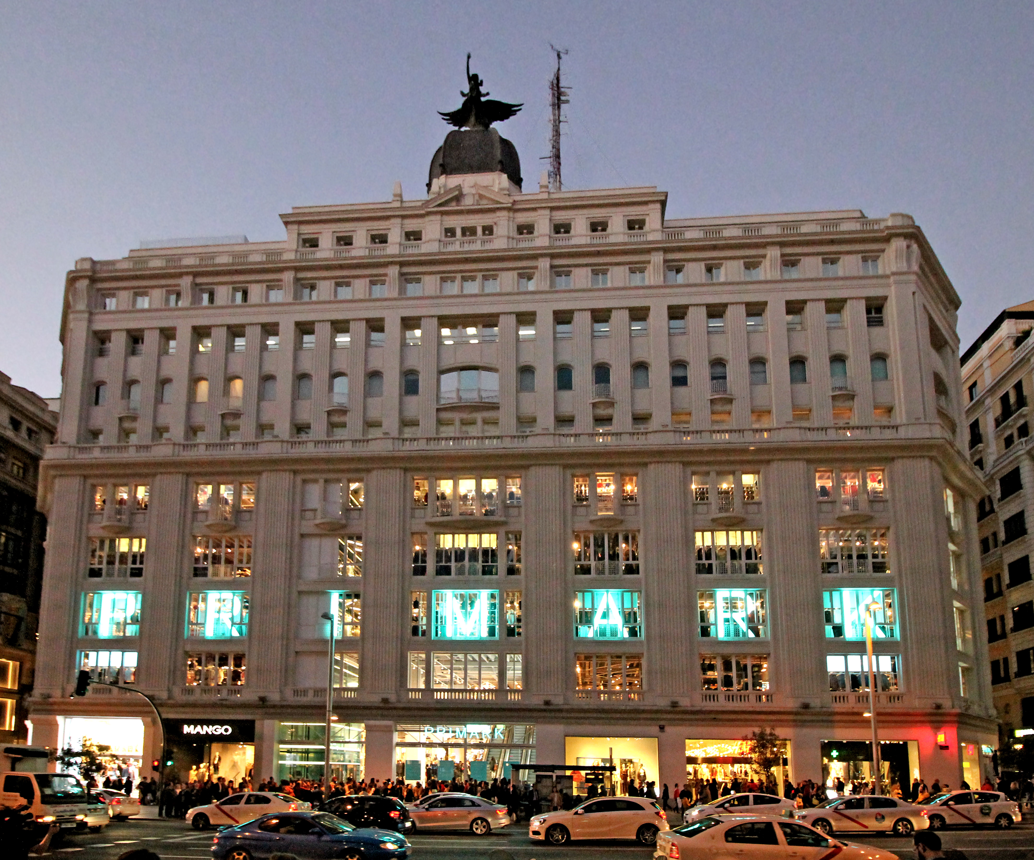 Façade of the Primark store at 32 Gran Vía (avenue) in Madrid (Spain).